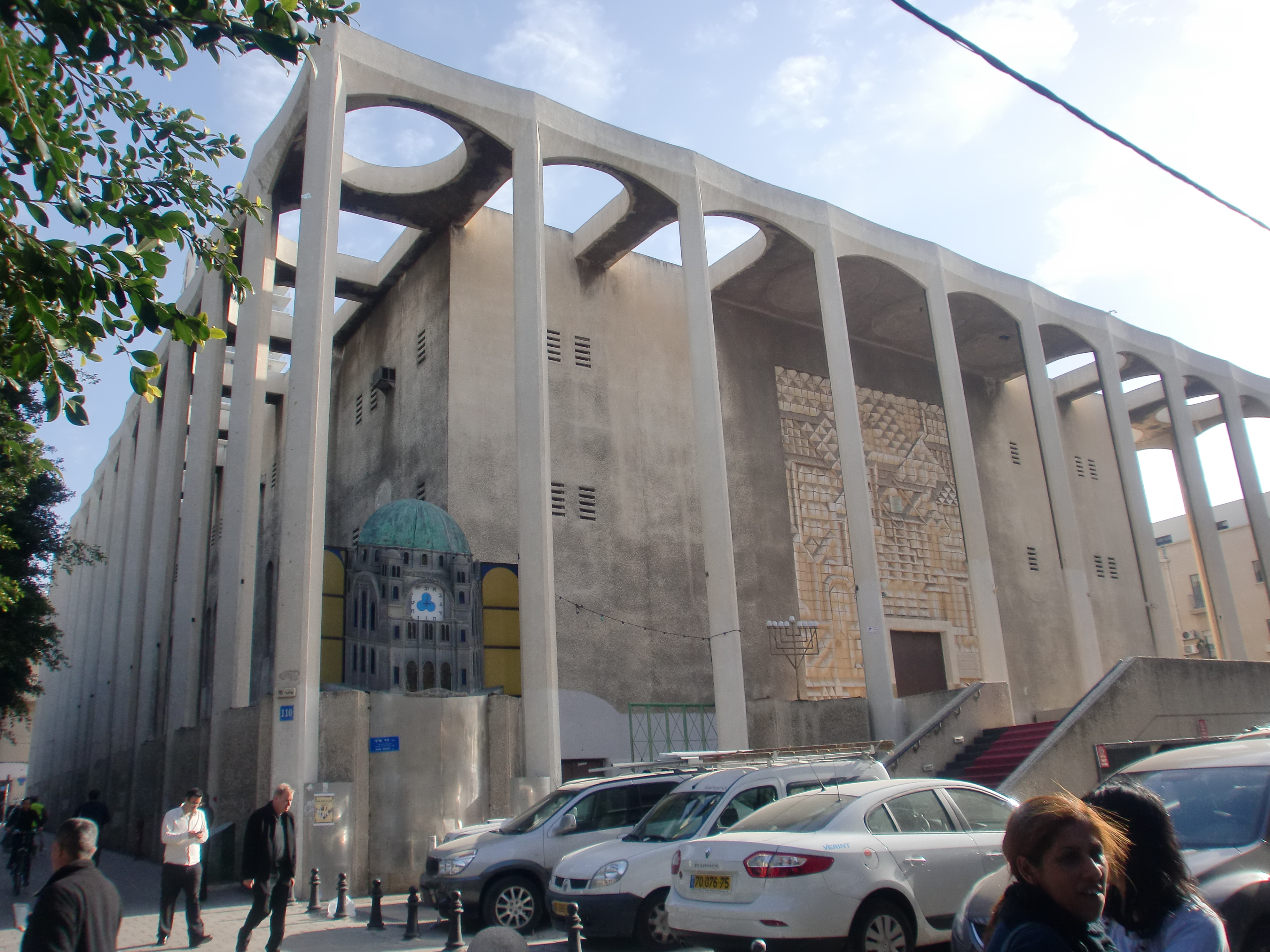 Great Synagogue, Tel AvivGalego: Sinagoga grande, Tel Aviv